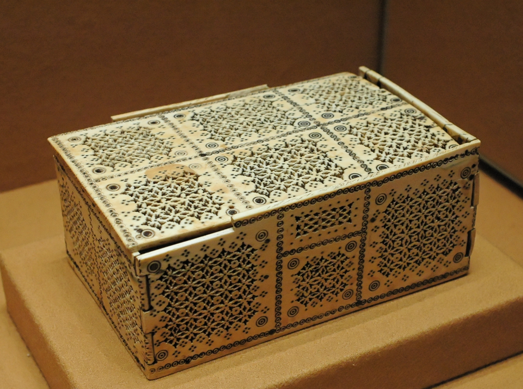 Casket, Muslim Spain or Fatimid Egypt.